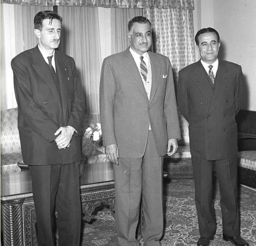 President Gamal Abdel Nasser and Lebanese Minister of Education Kamal Jumblatt and Shawakt Shukayr - 1 March 1961, Damascus, Syria